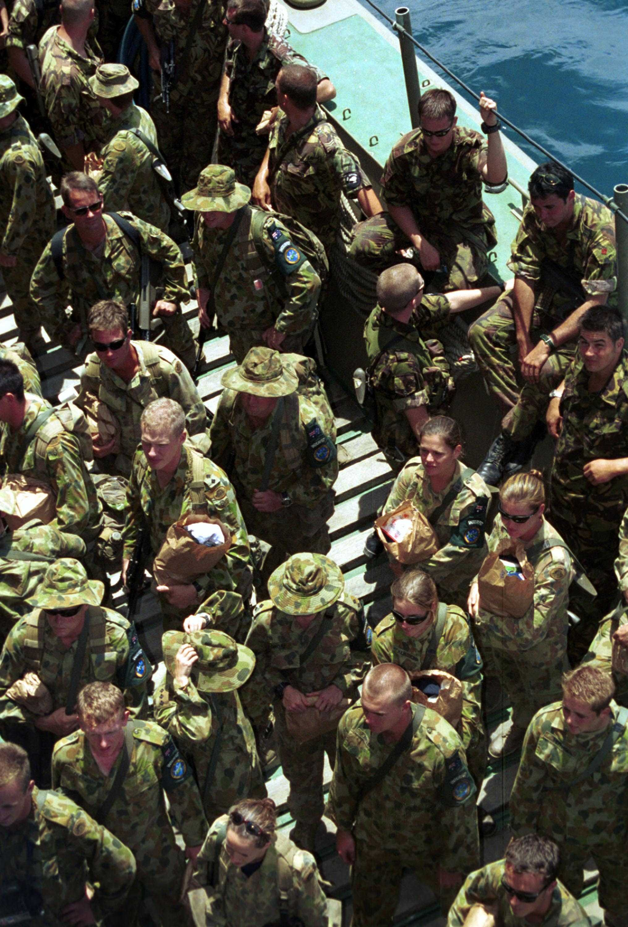 USS Blue Ridge, 11 February 2000, Dili, East Timor-- Australian Army part of (INTERFET) International Forces East Timor, come alongside USS Blue Ridge currently at anchor 3000 yards off the coast of Dili, East Timor. The Australian Army embarked for a day of meetings and rest.